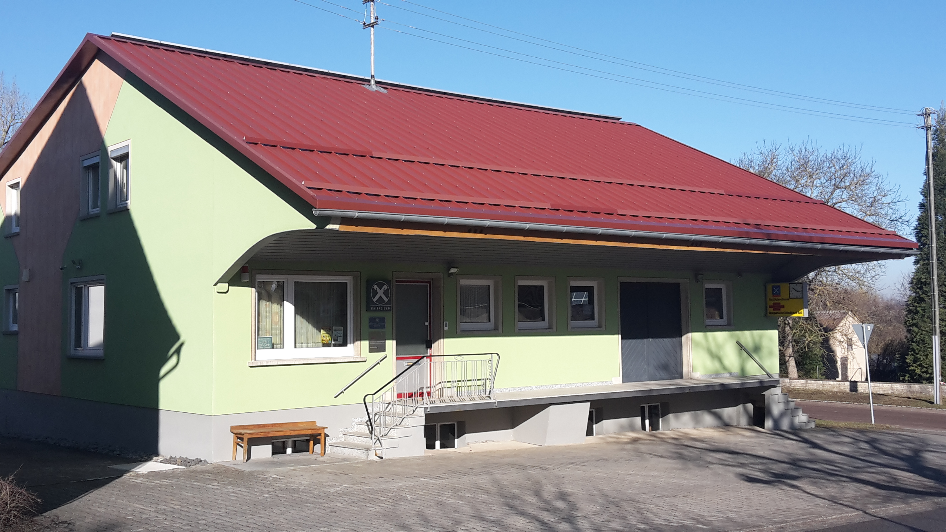 Raiffeisenbank Gammesfeld